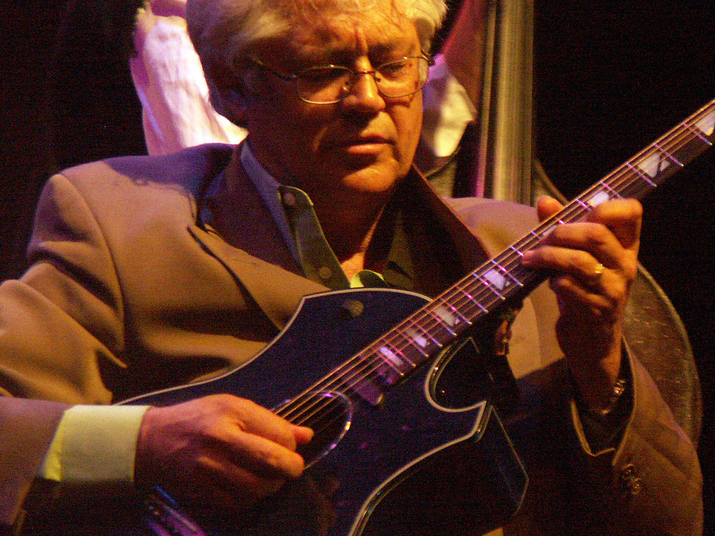 Larry Coryell & Hot Club Pacific, Djangofest Northwest Sept. 22, 2007 - Set 5 SWHS - Whidbey Island, WA